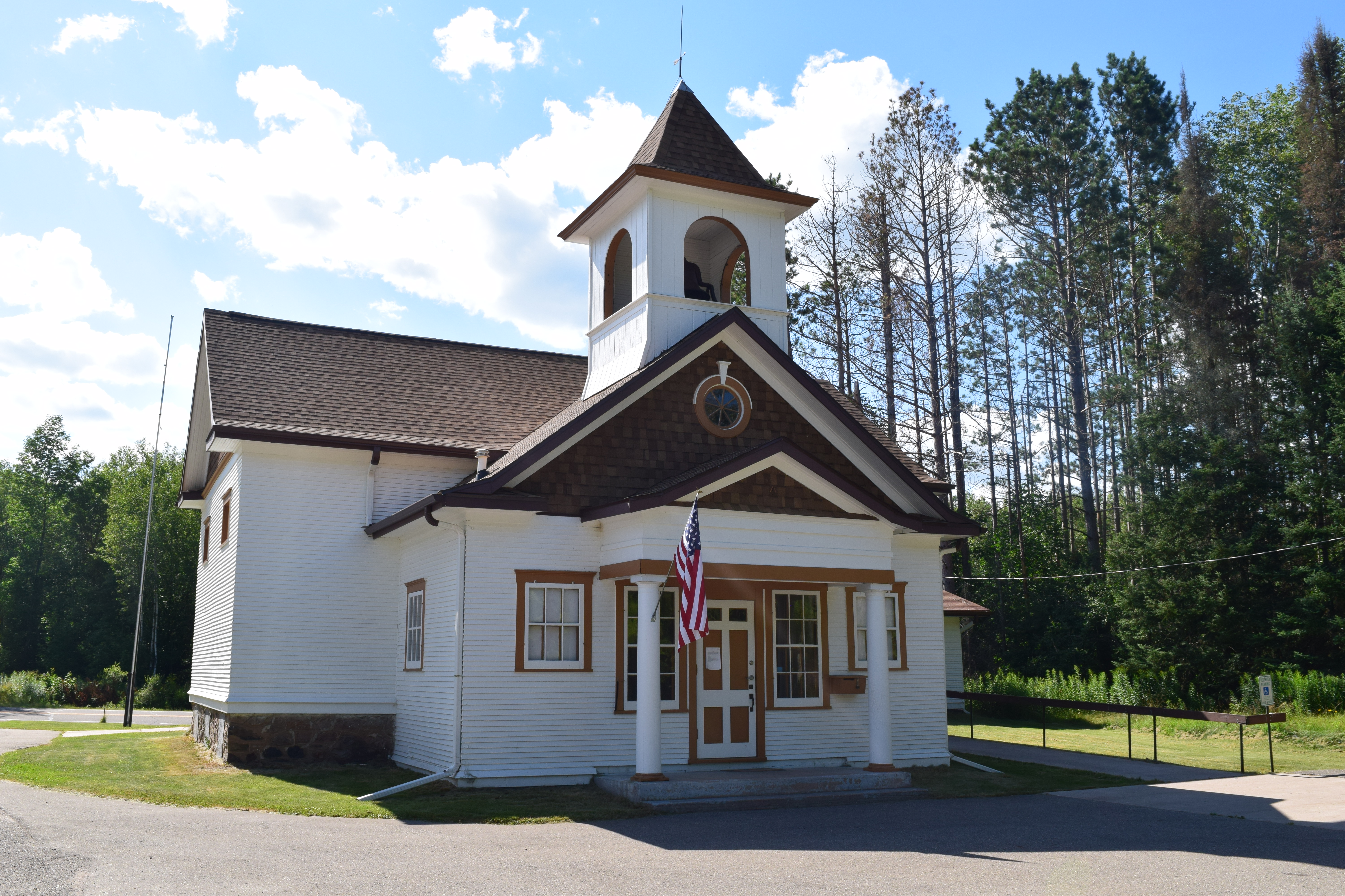 The Fern School, located along Wisconsin Highway 101 in the Town of Fern, Wisconsin.